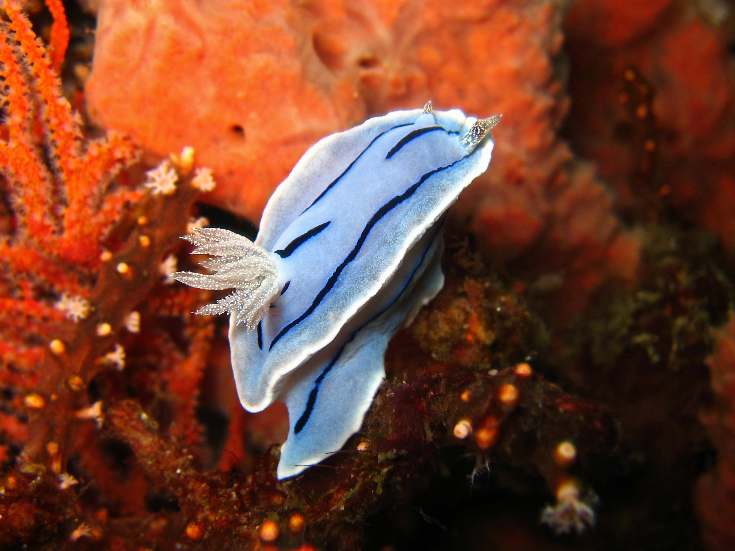 Chromodoris willani at the 'Drop Off' divesite, Verde Island, Puerto Galera, the Philippines.